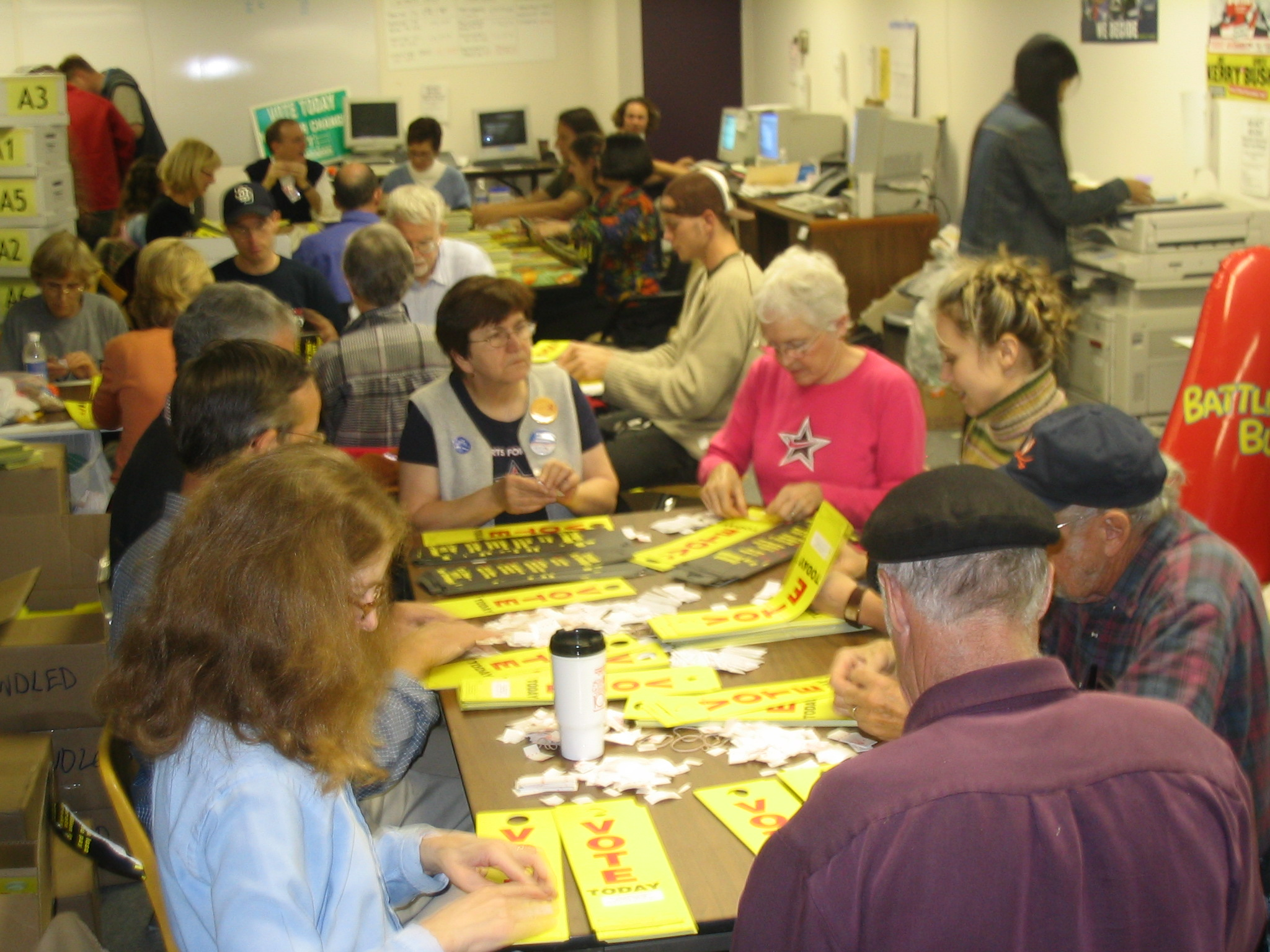 Political volunteers for the Kerry Campaign in Cincinnati, Ohio in 2004.